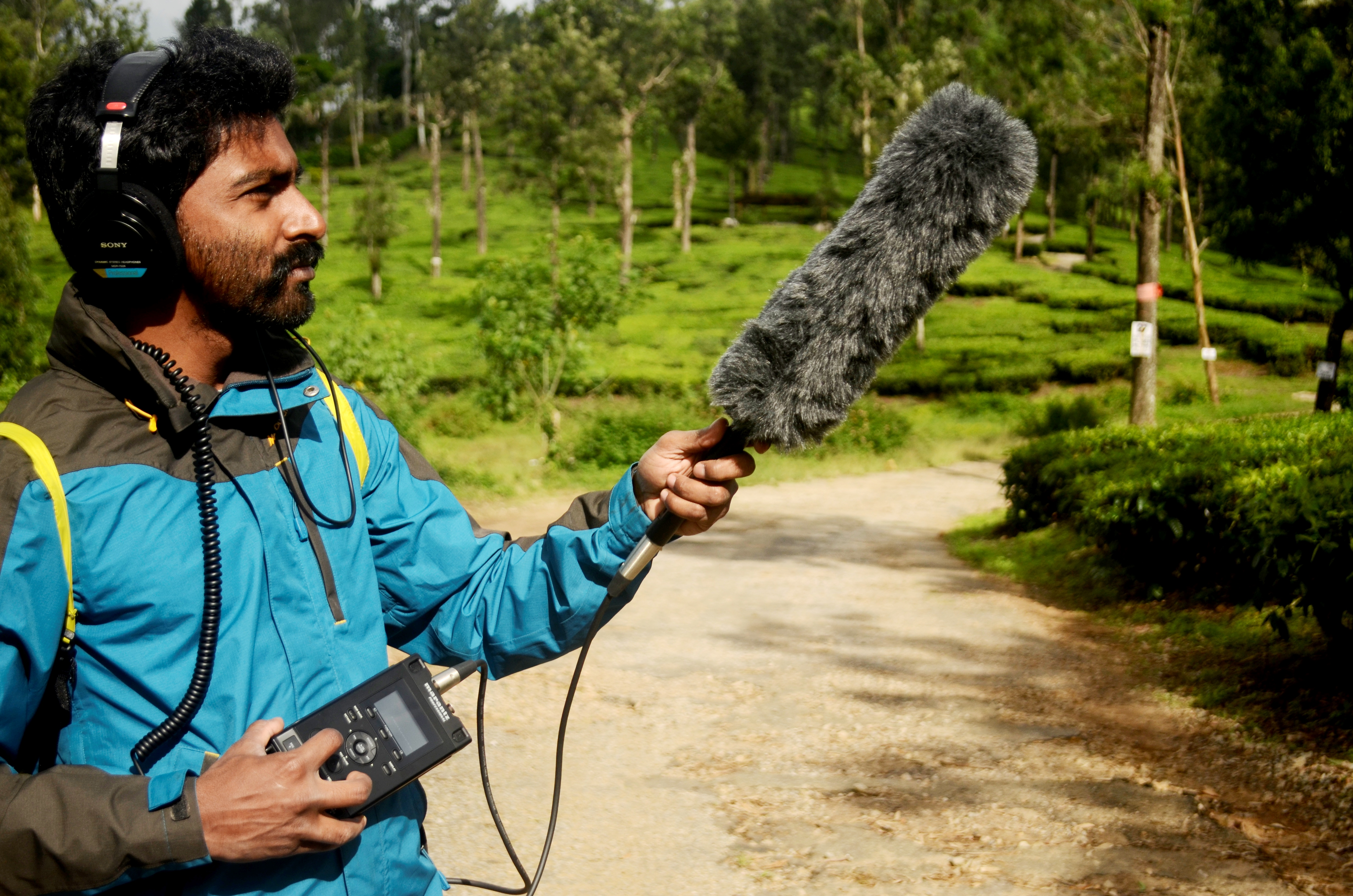 Researcher recording bird calls closeup